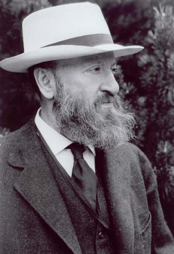 George H. Tinkham, a lawyer and member of the United States House of Representatives from the state of Massachusetts. He was in office from the start of the 64th Congress (March 4, 1915) to the end of the 77th Congress (January 3, 1943).